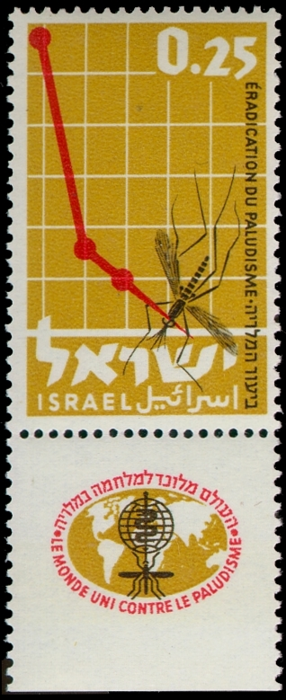 Malaria Eradication - Issued on the occation of the World Malaria Eradication Campaign.